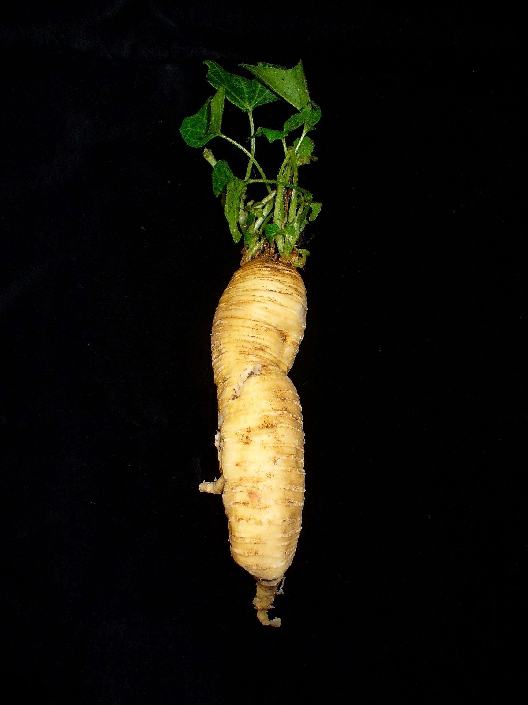 Bryonia dioica, Cucurbitaceae, White Bryony; root. Karlsruhe, Germany.